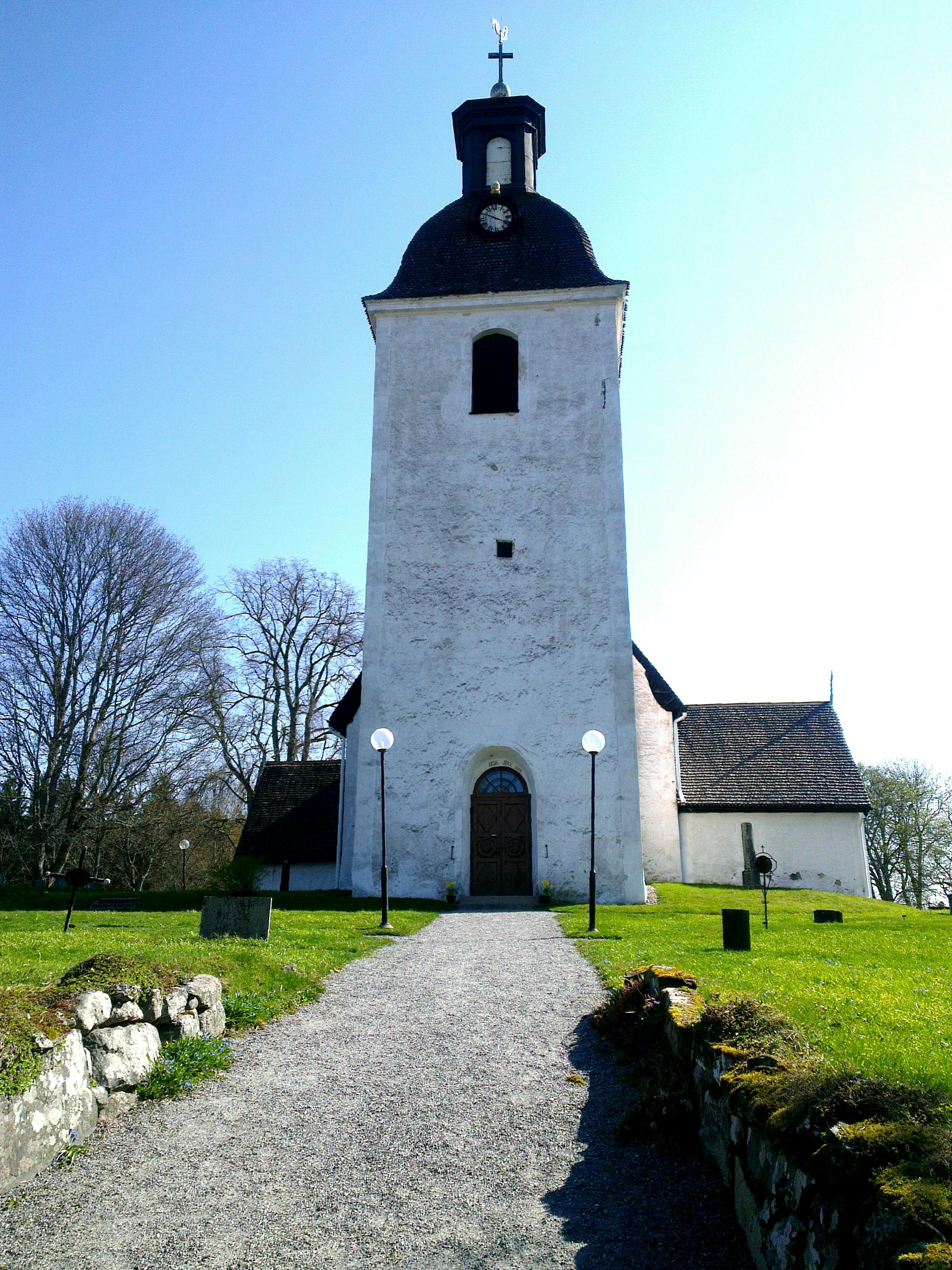 This images shows the front of the church of Husby-Sjutolft. The image was taken in April 2014.